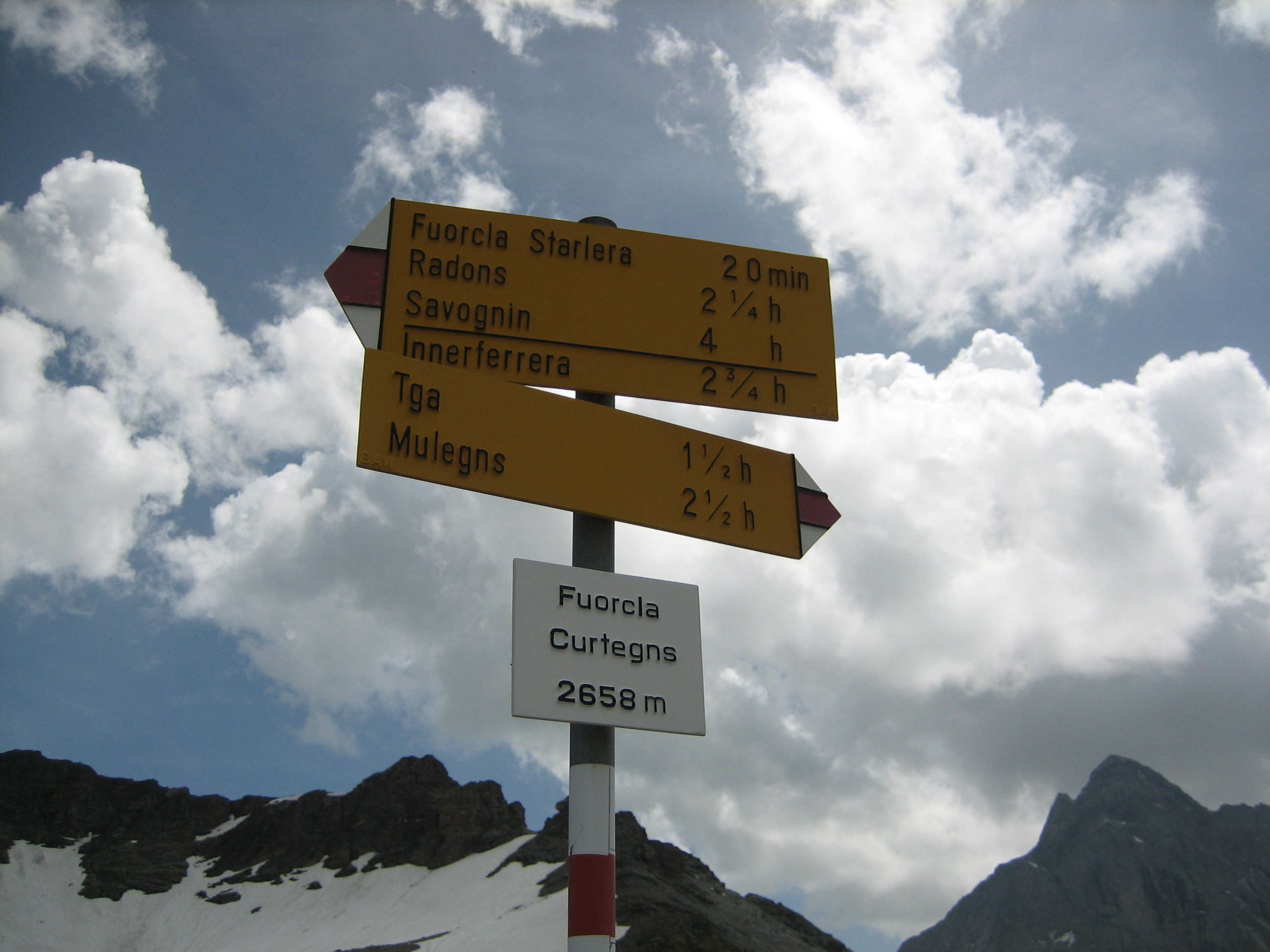 Fingerpost on Fuorcla Starlera (Surses/Ferrera, Grison, Switzerland)